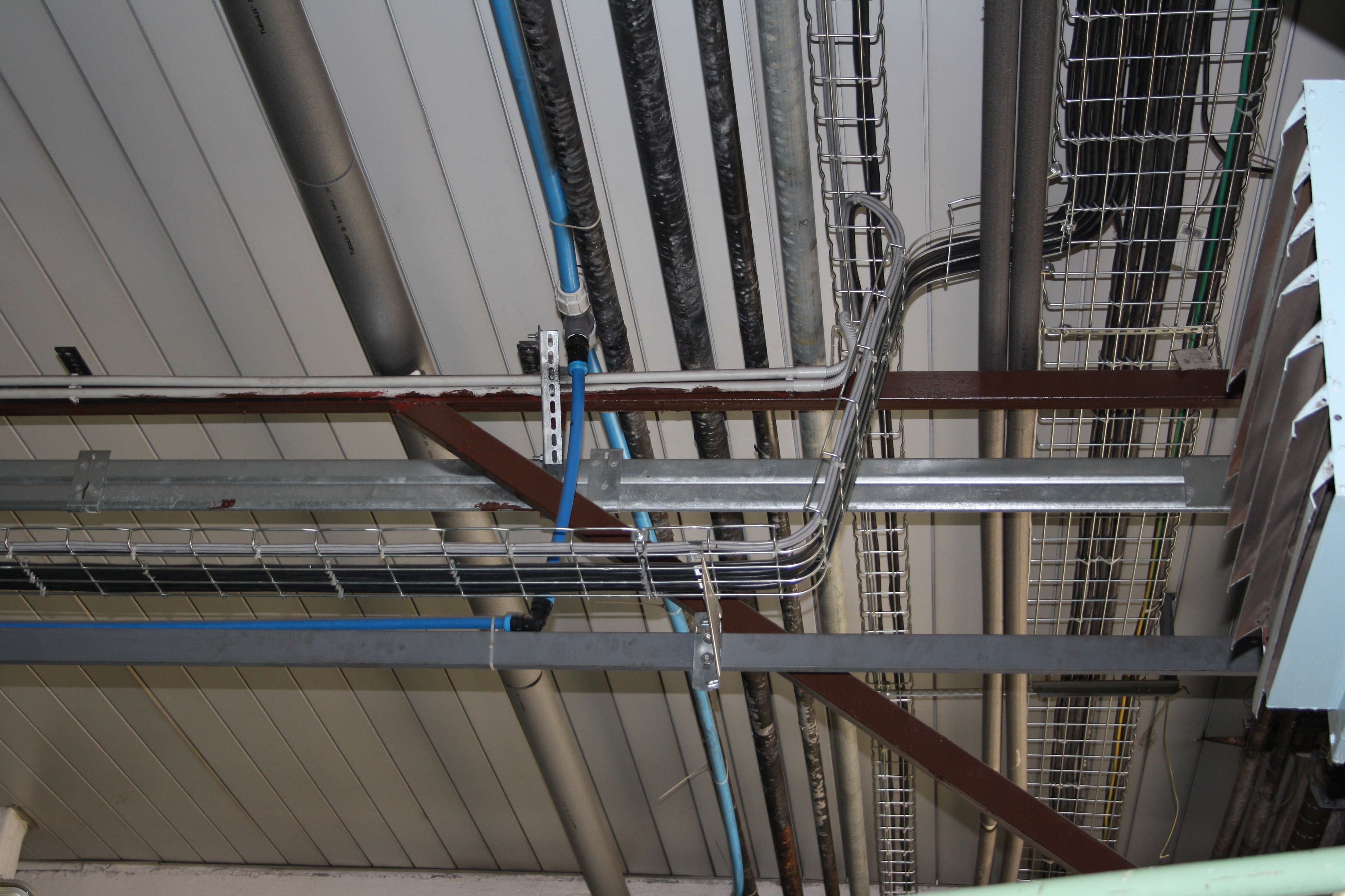 Wire cable tray with cables